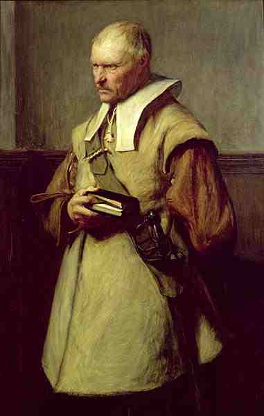 Roundhead